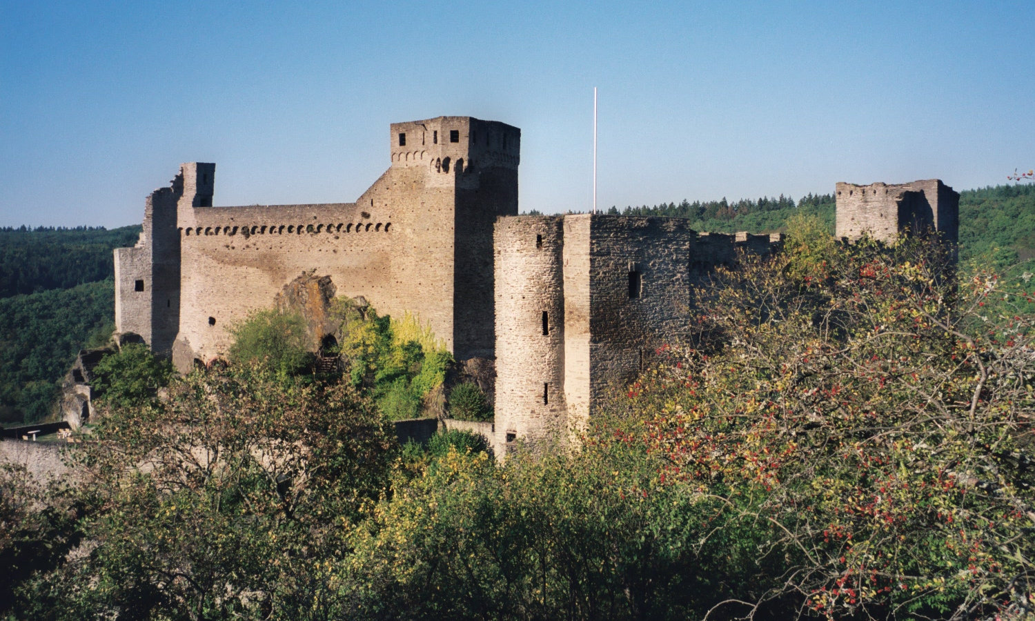 Hohenstein castle in Taunus, Germany.